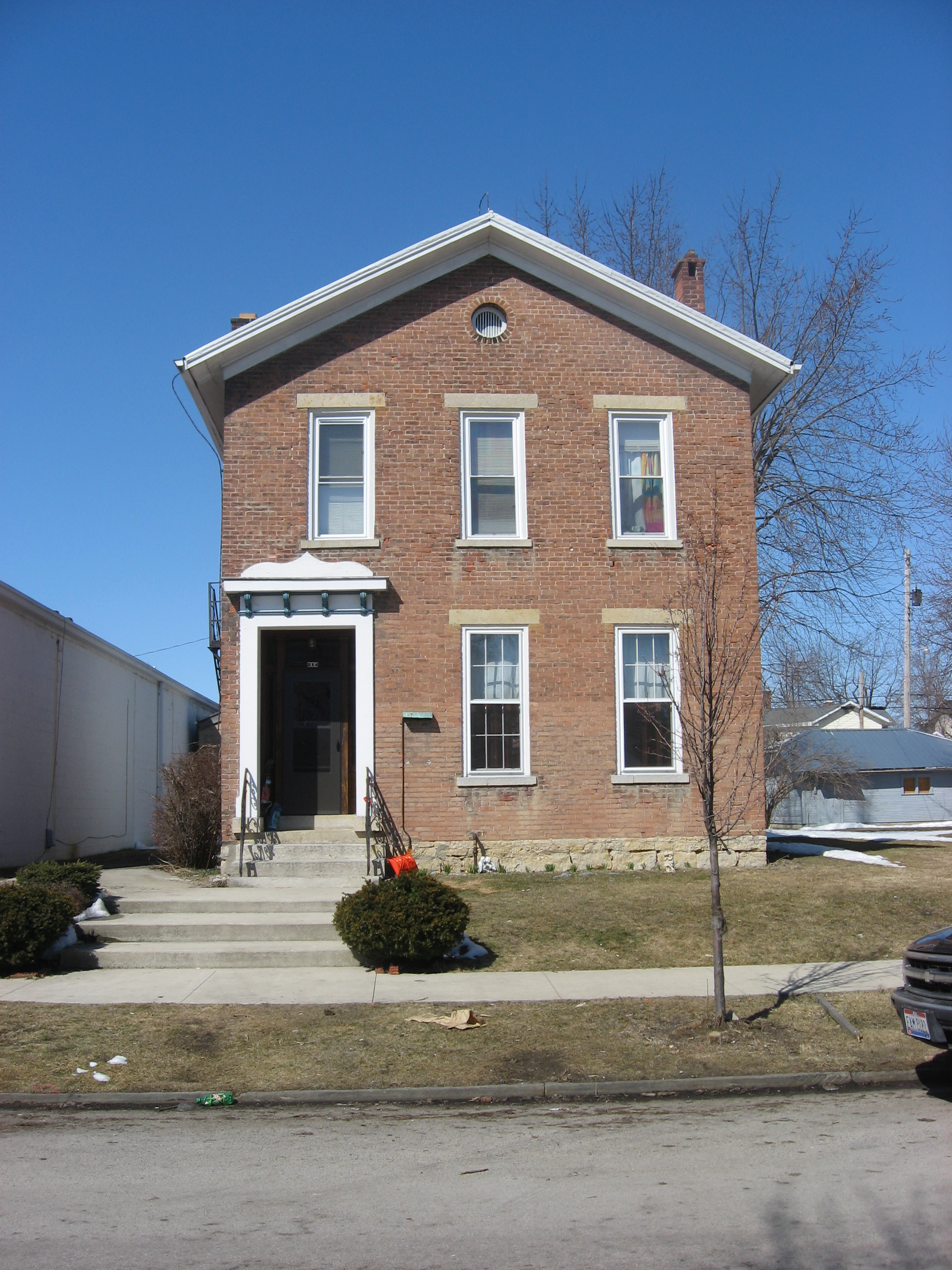 Front of the Anna Beir House, located at 214 E. Fourth Street in Greenville, Ohio, United States. Built in 1865, it is listed on the National Register of Historic Places.